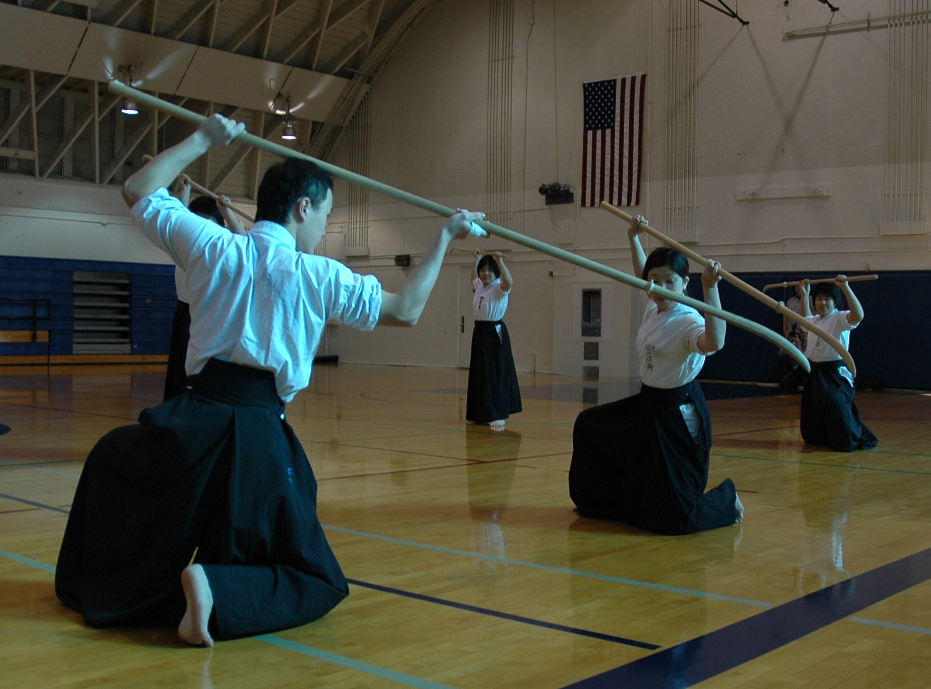 Final pose from the International Budo University's rhythm naginata (think synchronized swimming) routine demonstration at El Camino College.